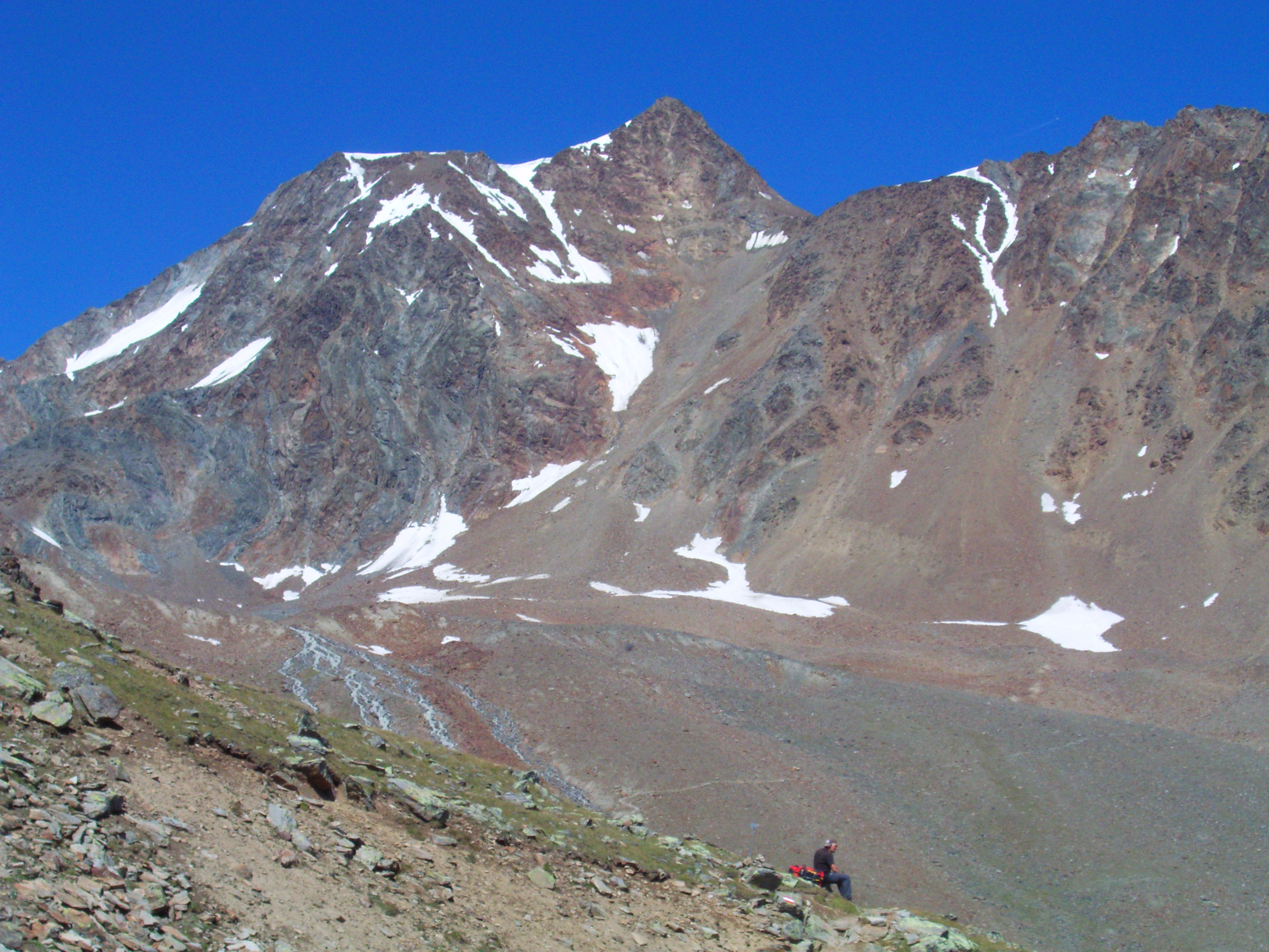 Wildspitze, seen from south. Photo taken on the trail between Vernagthütte and Breslauer Hütte. At the right border of the picture the Ötztaler Urkund.